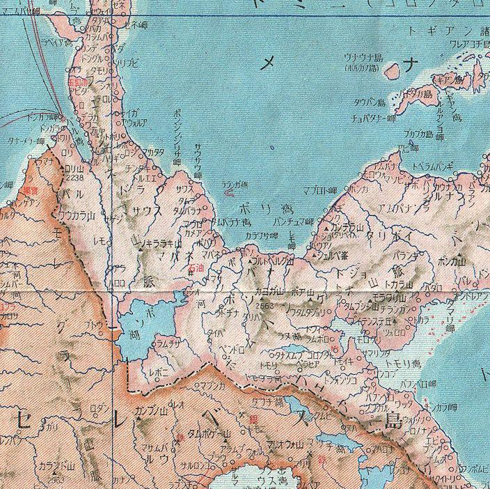 A stunning large format Japanese map of Celebes dating to World War II. Covers the entirety of the island and its vicinity with color coding according to area Offers superb detail regarding both topographical and political elements. Notes cities, roads, trade routes on air, sea and land, and uses shading to display oceanic depths. All text in Japanese. While Allied World War II maps of this region are fairly common it is extremely rare to come across their Japanese counterparts. This map was created as map no. 13 of a 20 map series detailing of parts of Asia and the Pacific prepared by the Japanese during World War II.